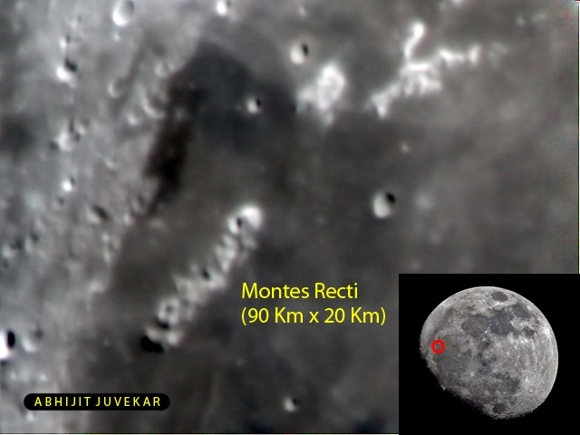 Montes Recti is a small mountain range present in the northern part of the Mare Imbrium.